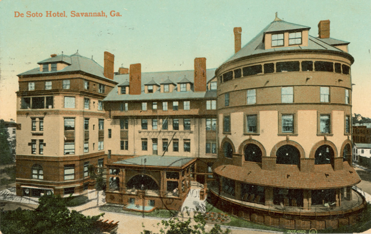 Image of the Hotel DeSoto, Savannah, GA, 1890, William Gibbons Preston, architect